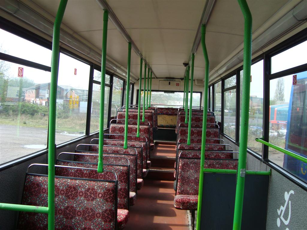 Marshall Capital Interior